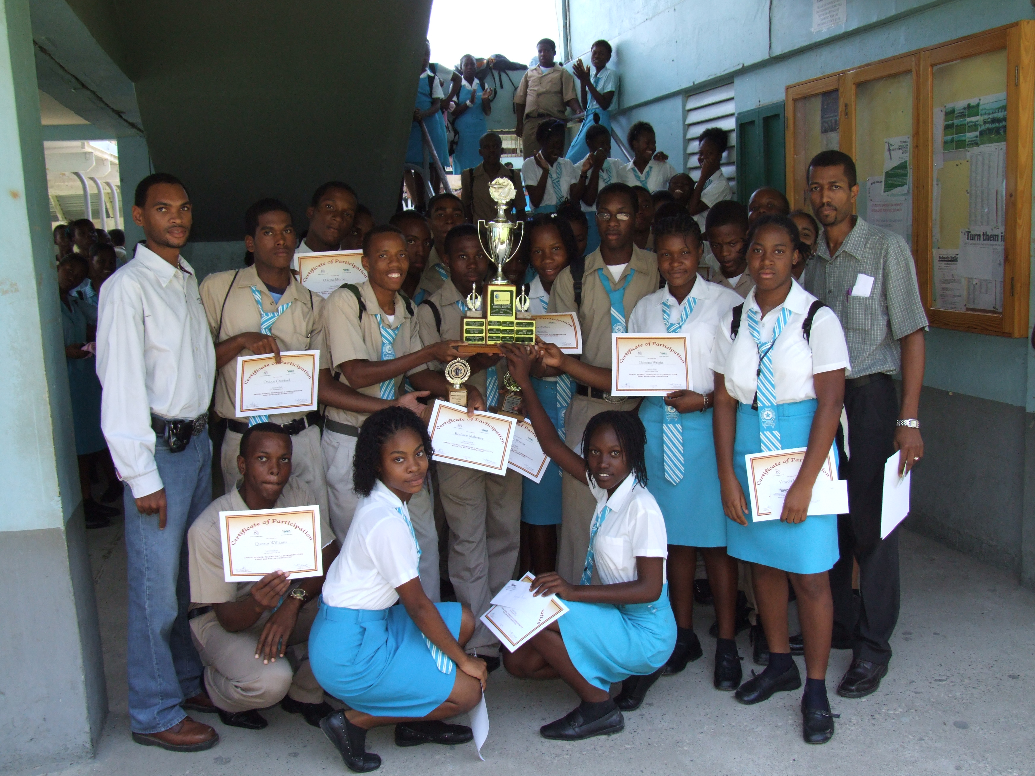 Lacovia 2008 Art Competitio Winners